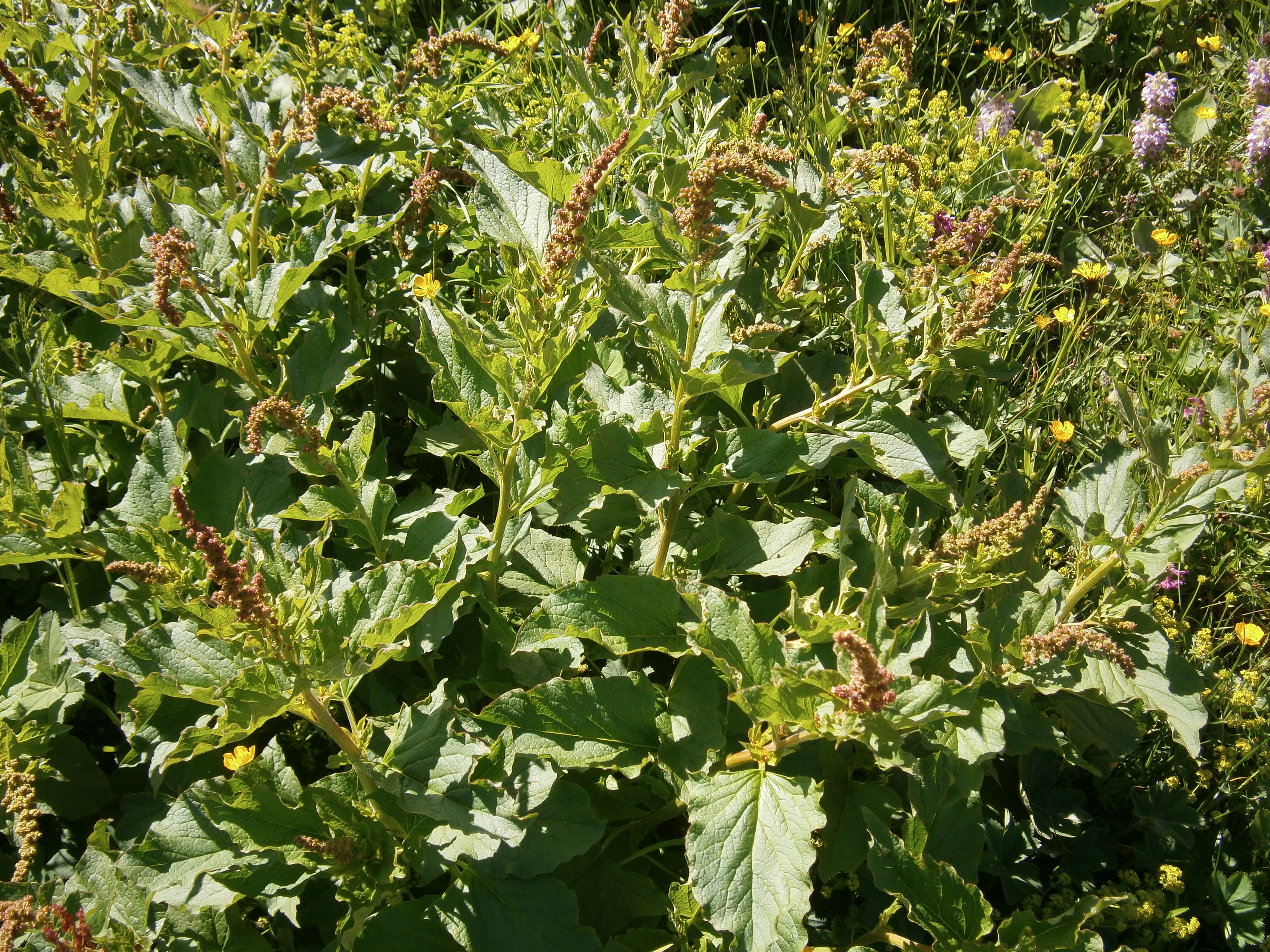 Chenopodium bonus-henricus